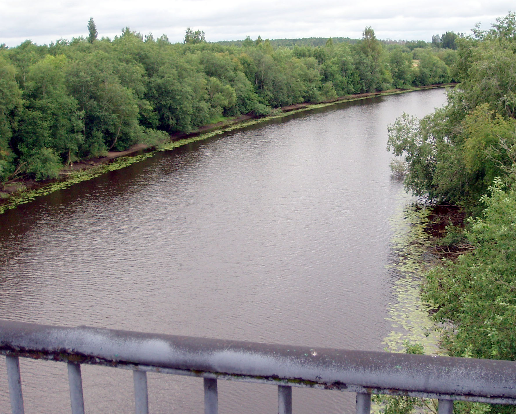 River Rosson (Rosona) in Kingiseppskij rajon in Leningradskaja oblast, Russia